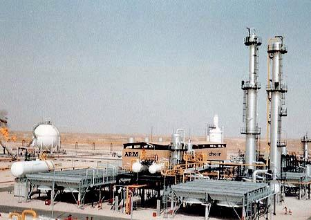 LPG from natural gas production plant